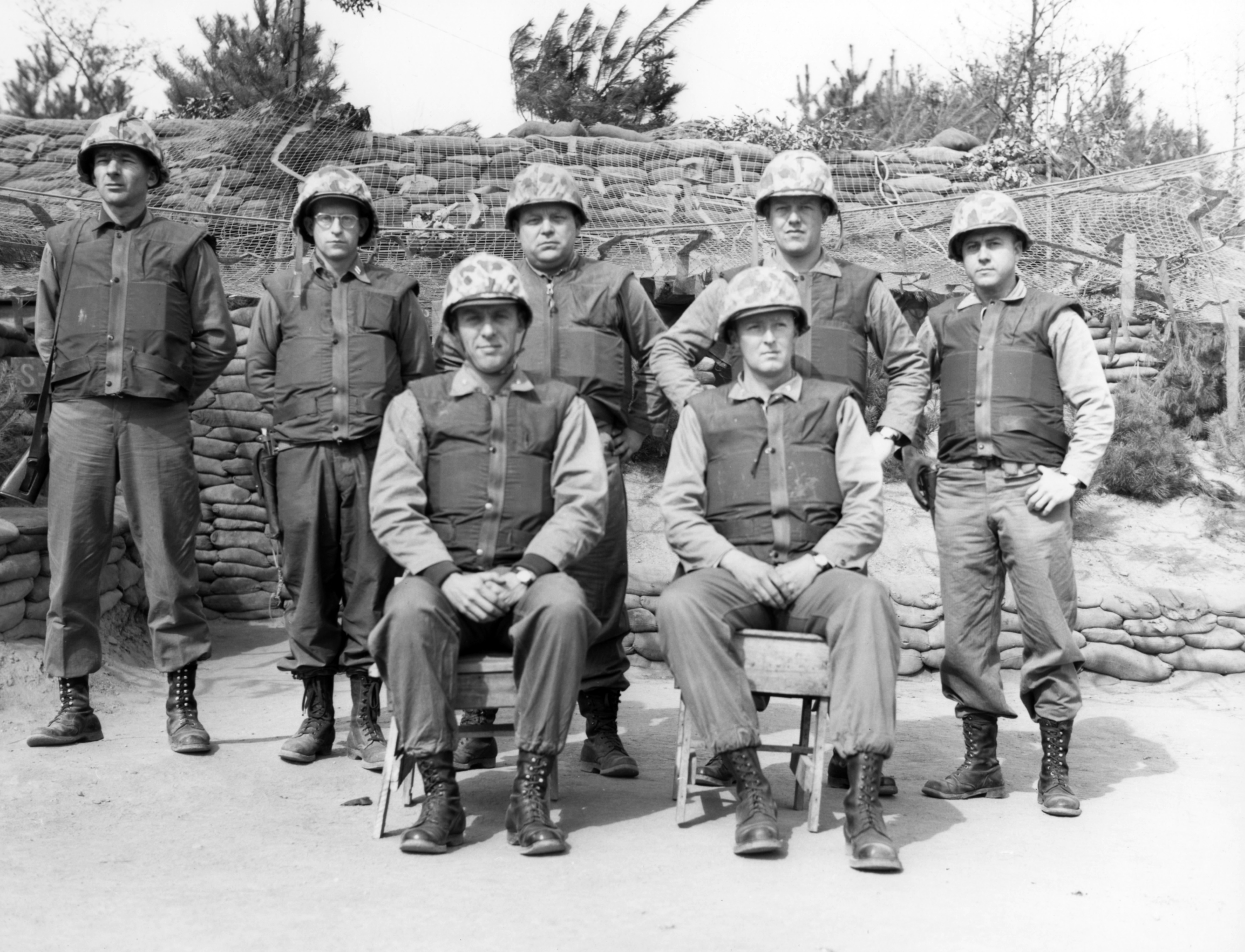 Lieutenant colonel Jonas M. Platt (sitting on the left), commanding officer of 1st Battalion, 5th Marines with the officer group of his battalion at Chajang-ni, Korea. Standing fromt left to right: 2nd Lt. F. W. Lindquist, Capt. Merrit A. Edson Jr., Capt. Wilbur F. Simlik, Capt. Roy B. Whitlock and Capt. Henry A. Checklou Sitting: Lt. col. Jonas M. Platt and Major William C. Doty